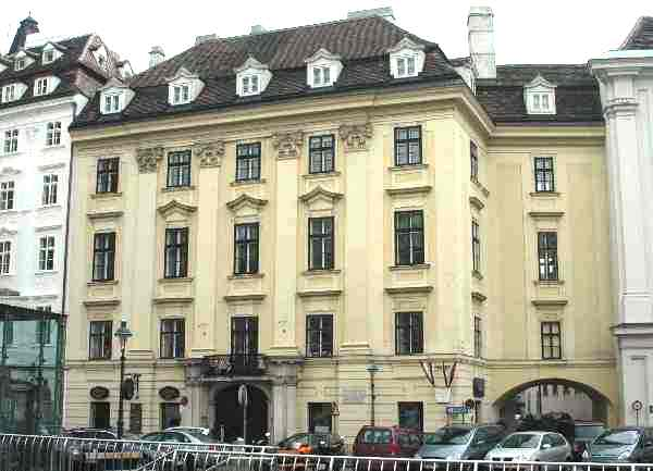 Wien01, Am Hof, Palais Collalto